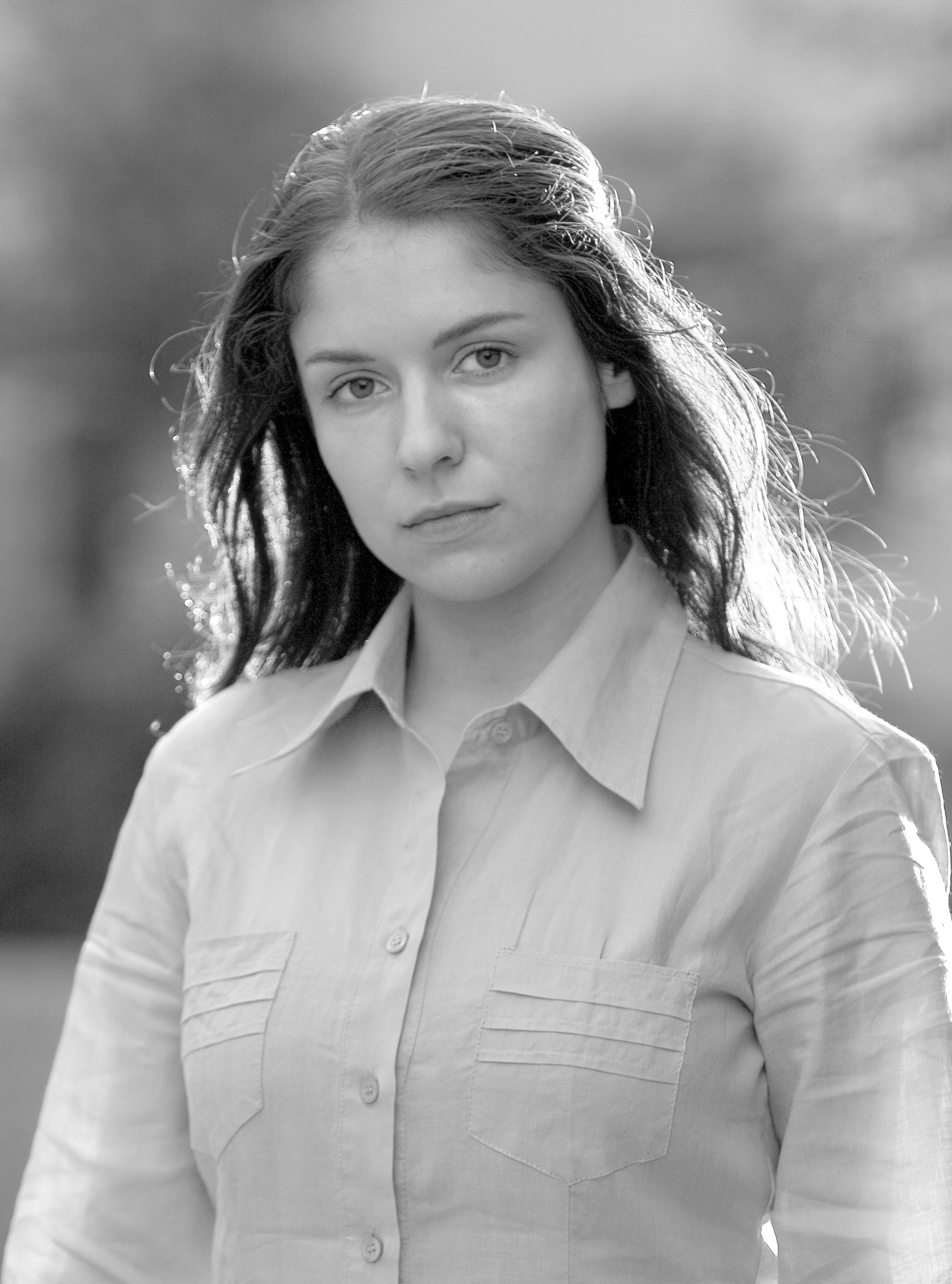 Journalist Jela Krečič portrait by Voranc Vogel